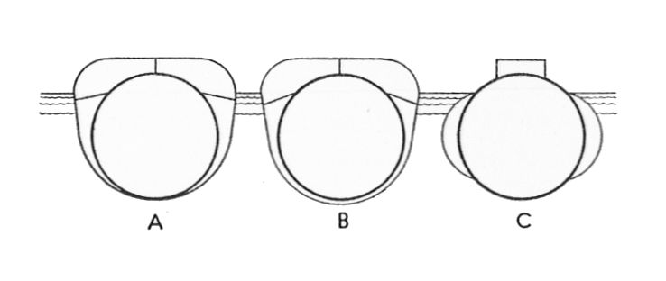 Fig. 2 Evolution of the submarine saddle tank.